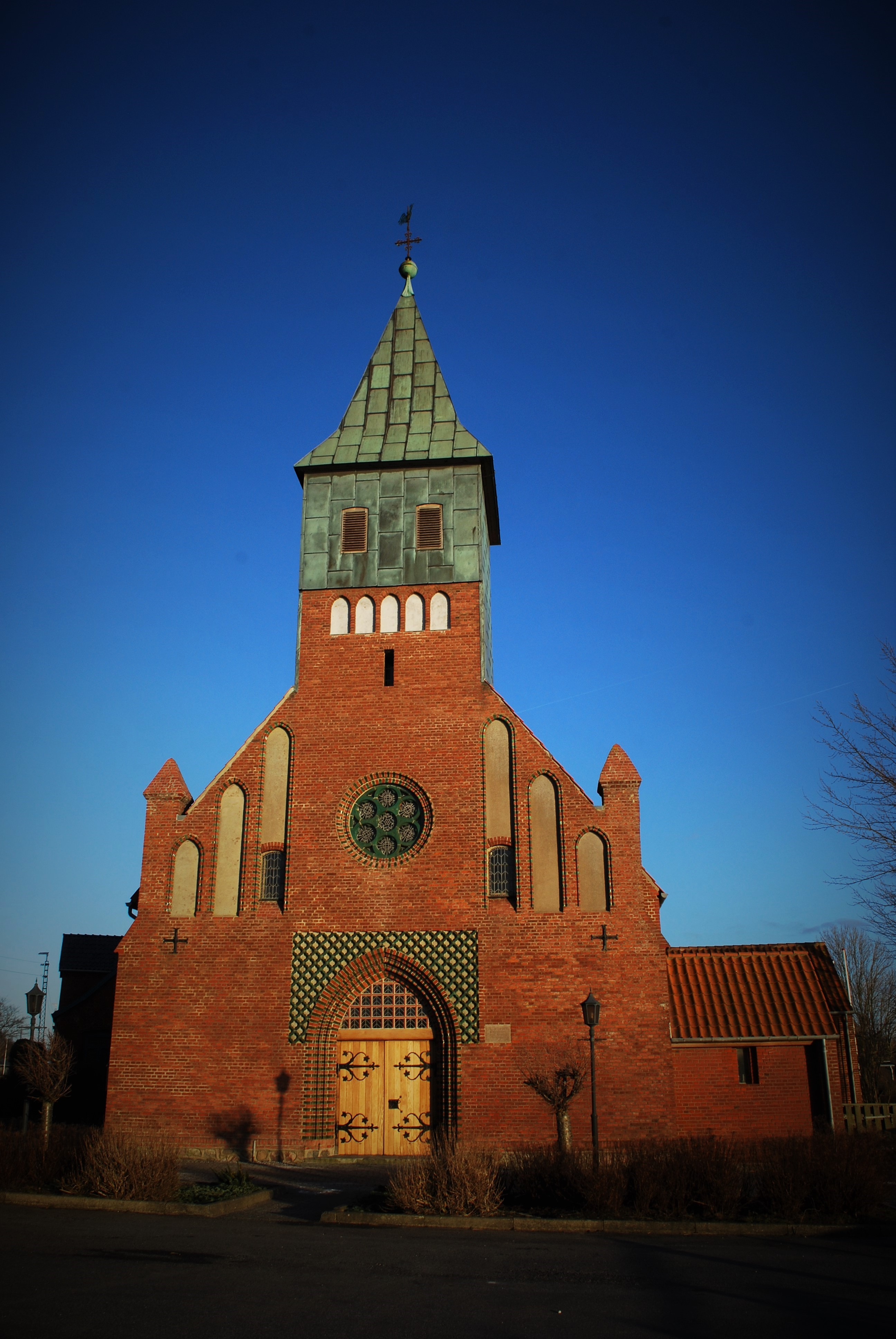 Church of Egernsund, Egernsund, Denmark